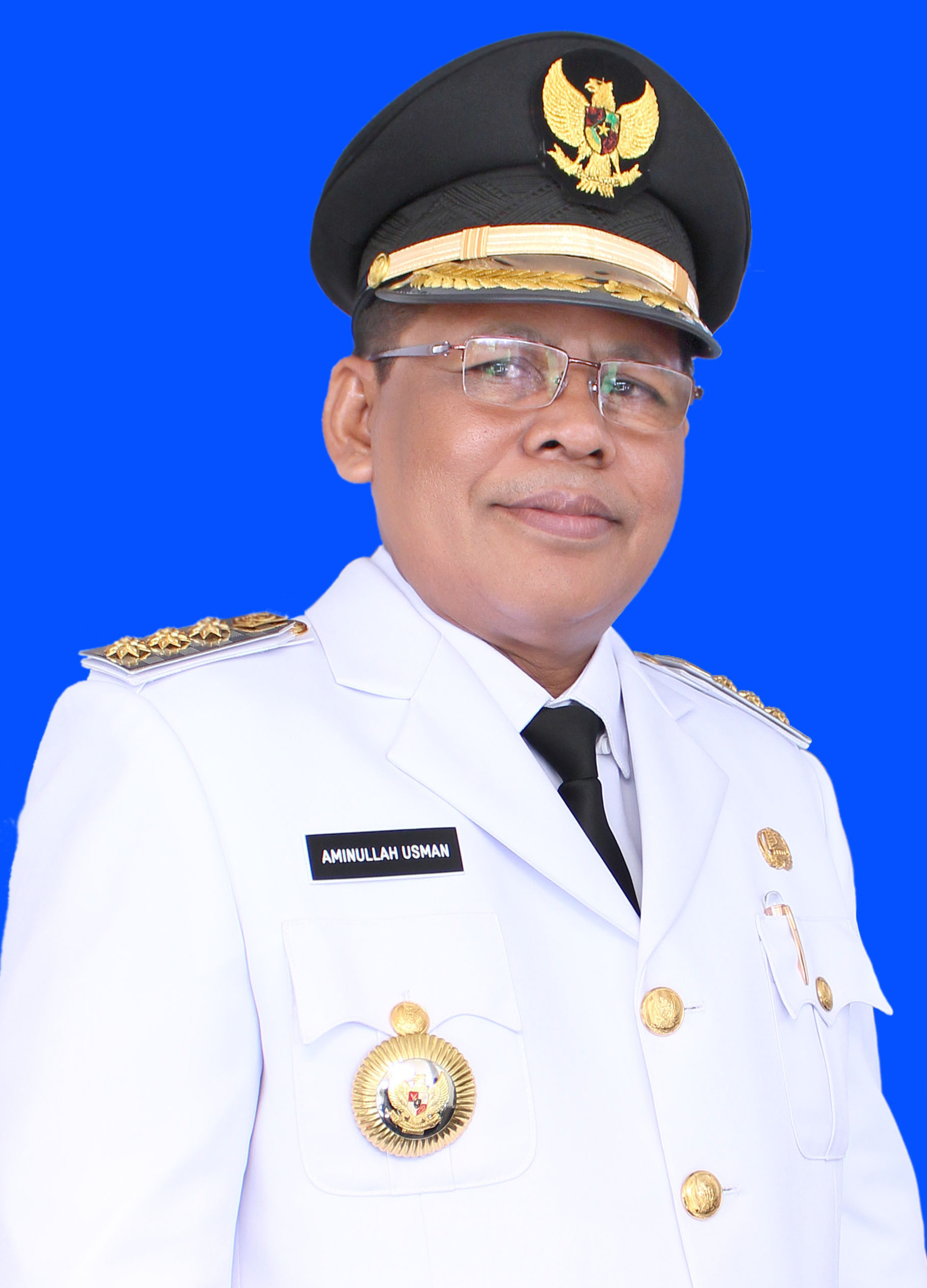 Aminullah Usman as Mayor of Banda Aceh, Indonesia